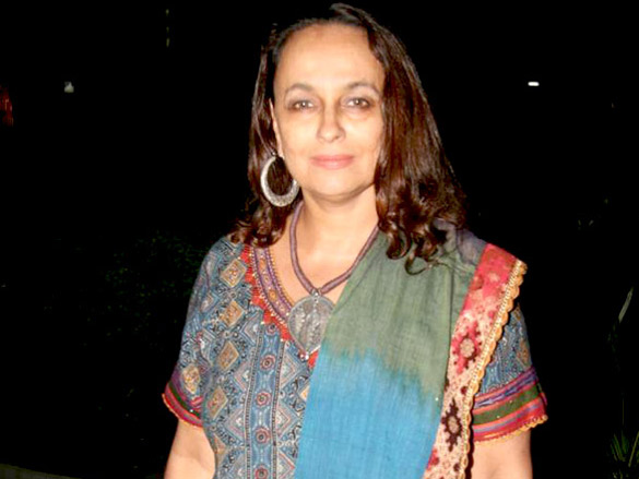 Soni razdan at premiere of Well Done Abba